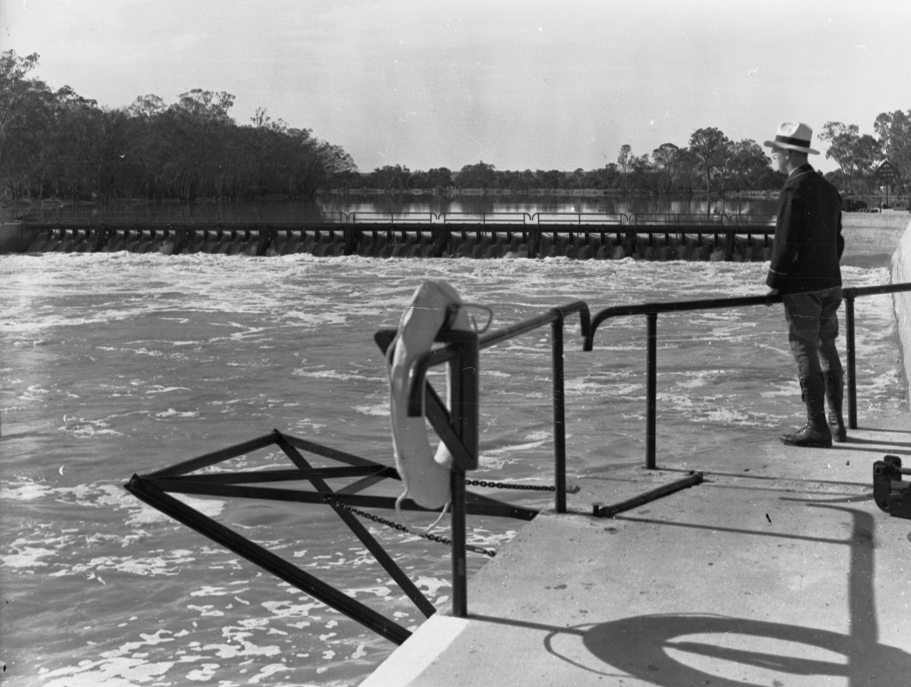 Not 'Irrigation Renmark' as stated on Microfiche. Index HY 177 says: Lock 5, Renmark. (G Brooks) - Re-titled to reflect G Brooks' notes. - Showing man on lock - All the photographs by Capt Hurley were taken in 1935 for the 1936 Centenary Year. Note GN05620 - New Parliament House not built. (G Brooks) - Hurley's car was a 1935 model Vauxhall. (G Brooks)